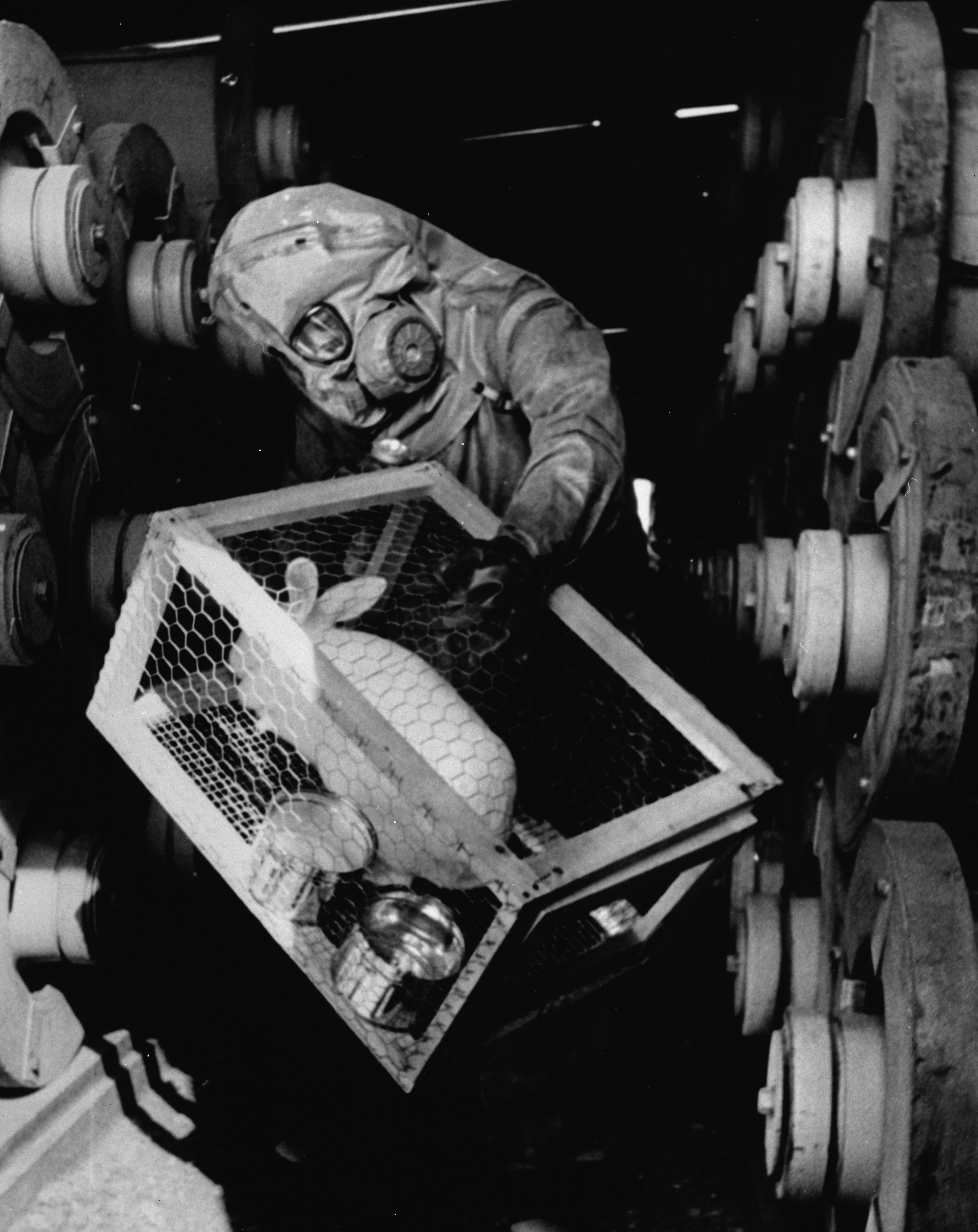 Rabbit used to check for leaks at Sarin nerve gas production plant, Rocky Mountain Arsenal, Commerce City, Colorado.